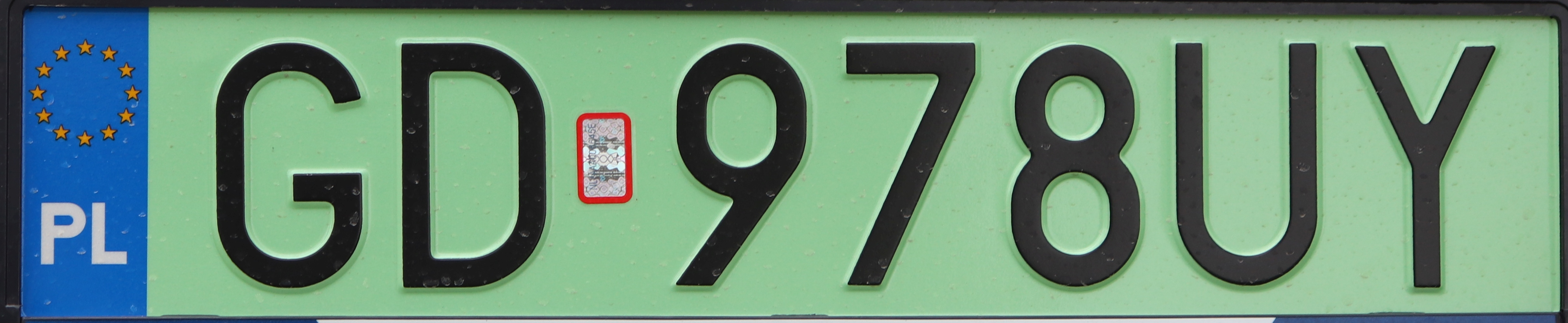 Gdańsk - environment-frendly vehicle license plate